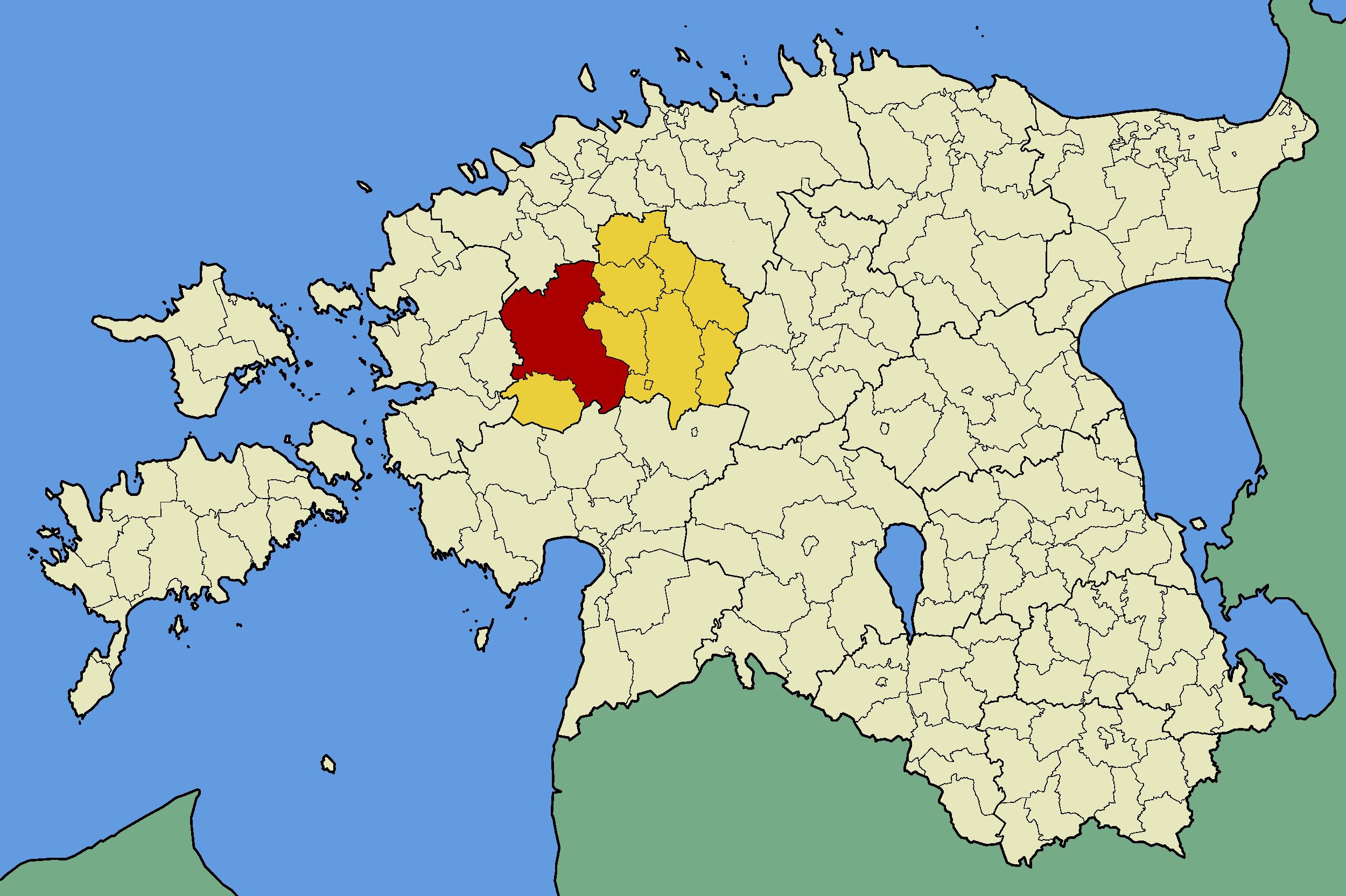 Map of Estonia with borders of municipalities (parishes). Rapla county and Märjamaa municipality emphasized.